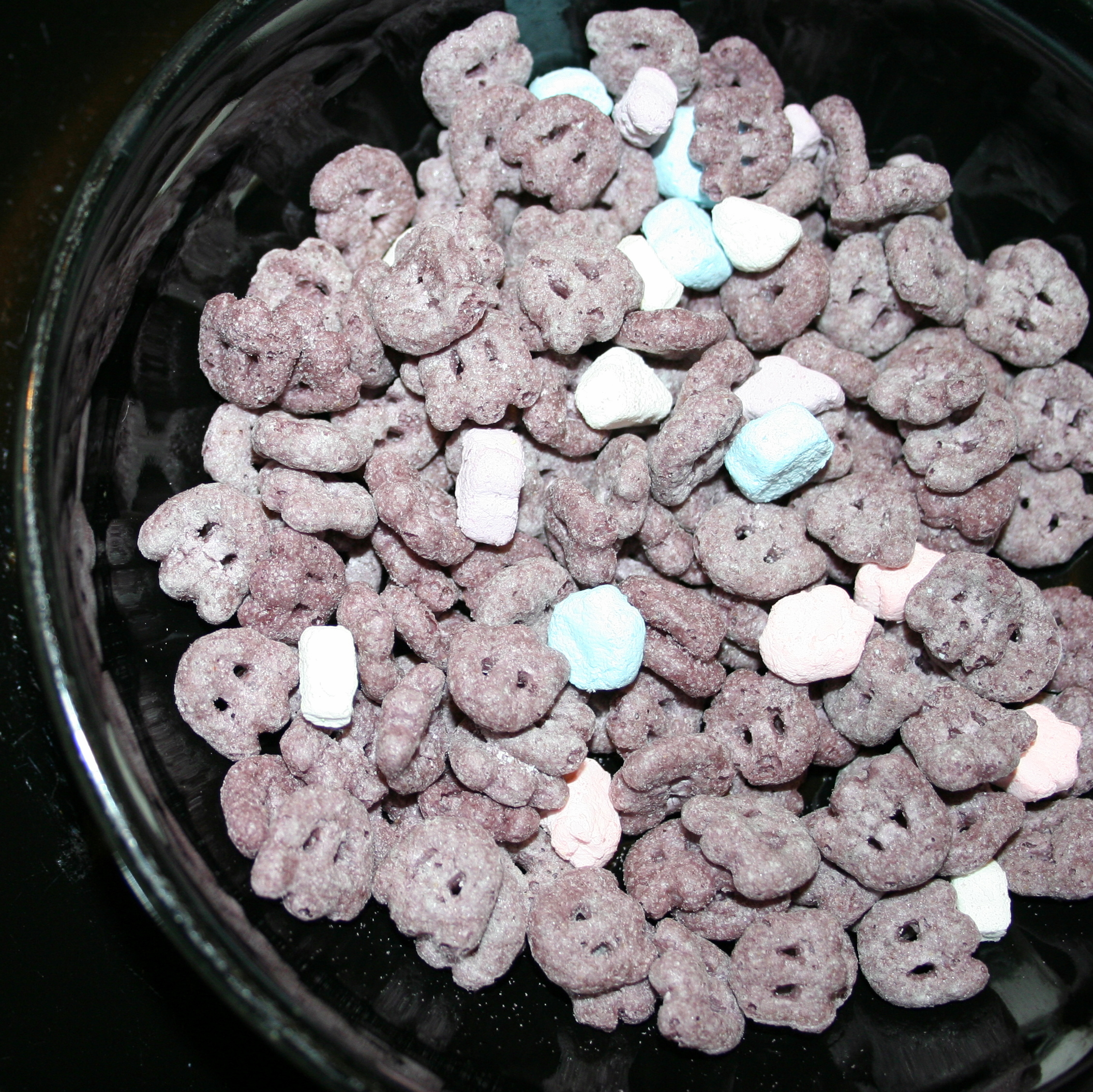 Boo Berry breakfast cereal in a black bowl.